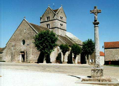 Touches Church, Mercurey, Burgundy/Bourgogne, France